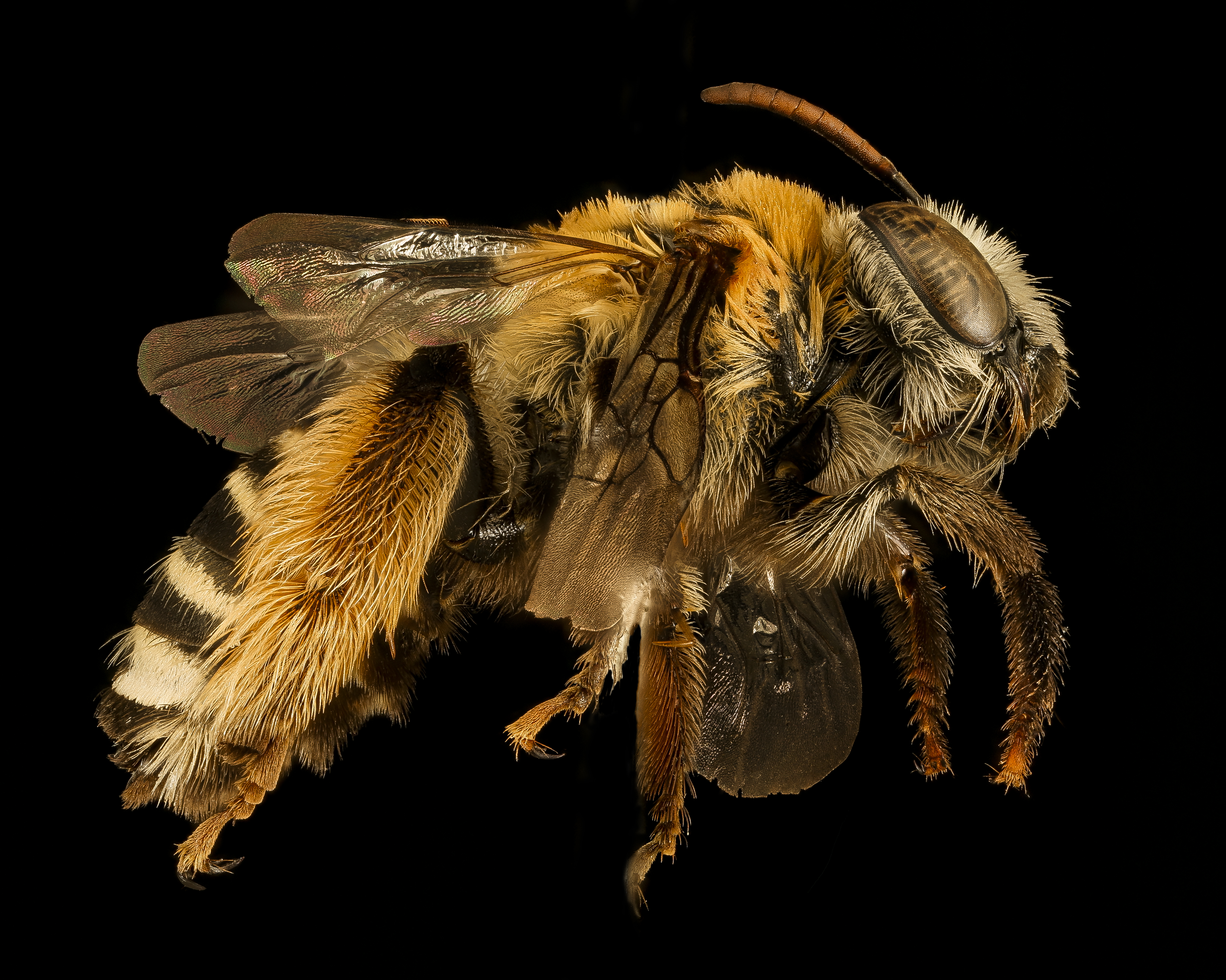 Jasper County, South Carolina, right across from Savannah Georgia sits Savannah National Wildlife Refuge. A refuge of dikes around huge old rice fields that now grow ducks and other marshlings. A few bees occur here, but diversity is pretty low as this is not so much a natural, but a managed habitat. Melissode tepaneca is another nice sublte Melissodes of the South. Few would know if it disappeared from the world, but I would. Picture by Ashleigh Jacobs, photoshopping by Elizabeth Garcia. 02:49, 29 February 2016 (UTC)02:49, 29 February 2016 (UTC) 0 02:49, 29 February 2016 (UTC)02:49, 29 February 2016 (UTC) All photographs are public domain, feel free to download and use as you wish. Photography Information: Canon Mark II 5D, Zerene Stacker, Stackshot Sled, 65mm Canon MP-E 1-5X macro lens, Twin Macro Flash in Styrofoam Cooler, F5.0, ISO 100, Shutter Speed 200 Beauty is truth, truth beauty - that is all Ye know on earth and all ye need to know " Ode on a Grecian Urn" John Keats You can also follow us on Instagram account USGSBIML Want some Useful Links to the Techniques We Use? Well now here you go Citizen: Art Photo Book: Bees: An Up-Close Look at Pollinators Around the World Basic USGSBIML set up: USGSBIML Photoshopping Technique: Note that we now have added using the burn tool at 50% opacity set to shadows to clean up the halos that bleed into the black background from "hot" color sections of the picture. PDF of Basic USGSBIML Photography Set Up: ftp://ftpext.usgs.gov/pub/er/md/laurel/Droege/How%20to%20Take%20MacroPhotographs%20of%20Insects%20BIML%20Lab2.pdf Google Hangout Demonstration of Techniques: or Excellent Technical Form on Stacking: Contact information: Sam Droege 301 497 5840